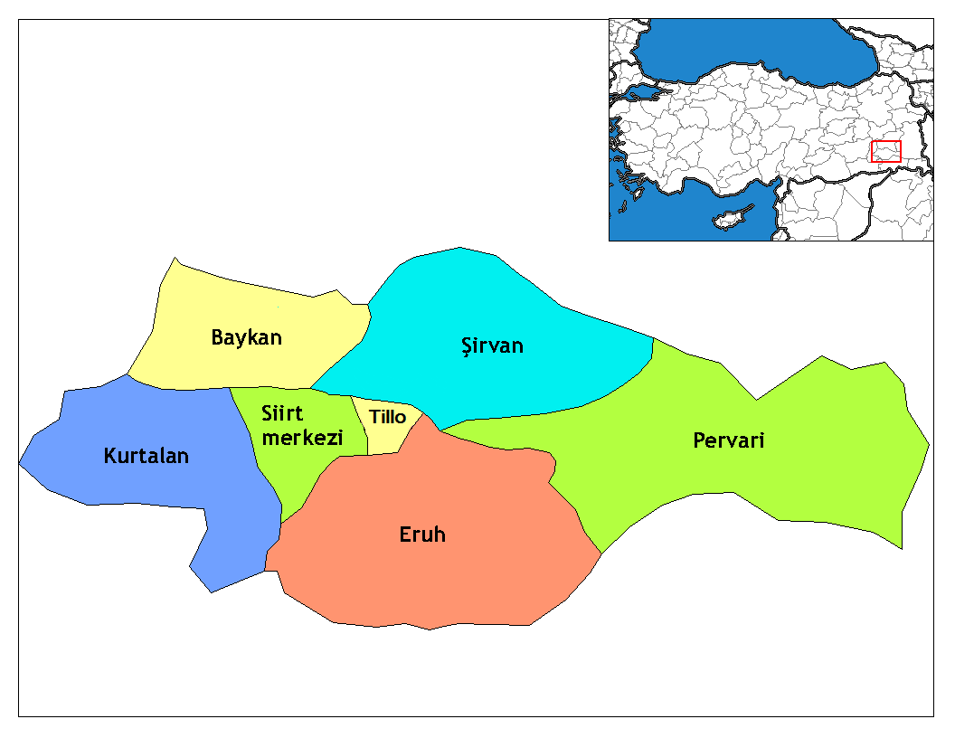 Map of the districts of Siirt province in Turkey. Created by Rarelibra 17:13, 4 December 2006 (UTC) for public domain use, using MapInfo Professional v8.5 and various mapping resources. Edited by One Homo Sapiens Corrected text where İ,Ş,ı,ğ,or ş occurs in name. Source: [statoids-com]. Increased font size and enhanced color differences among adjacent districts.